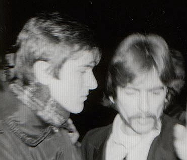 Veljko Despot and George Harrison on the set of the album "Sgt. Pepper", Abbey Road Studios, London, in 1967.